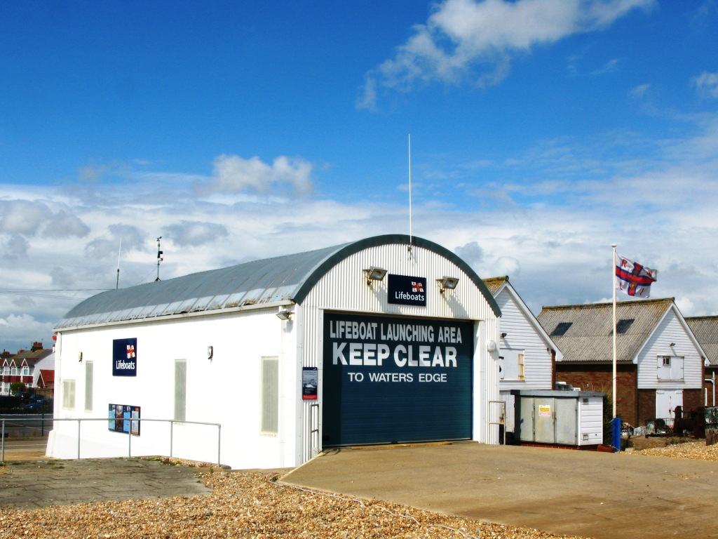 The inshore lifeboat station at Eastbourne, Sussex, England.